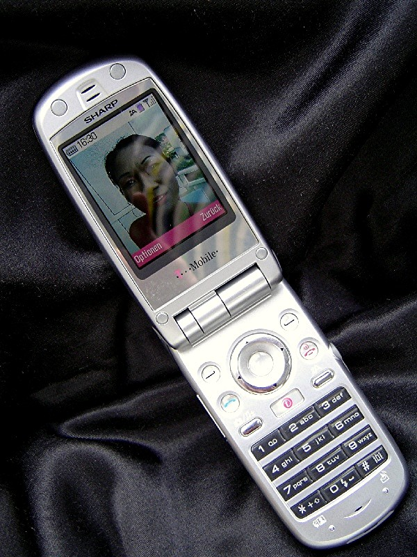 SHARP TM200-2